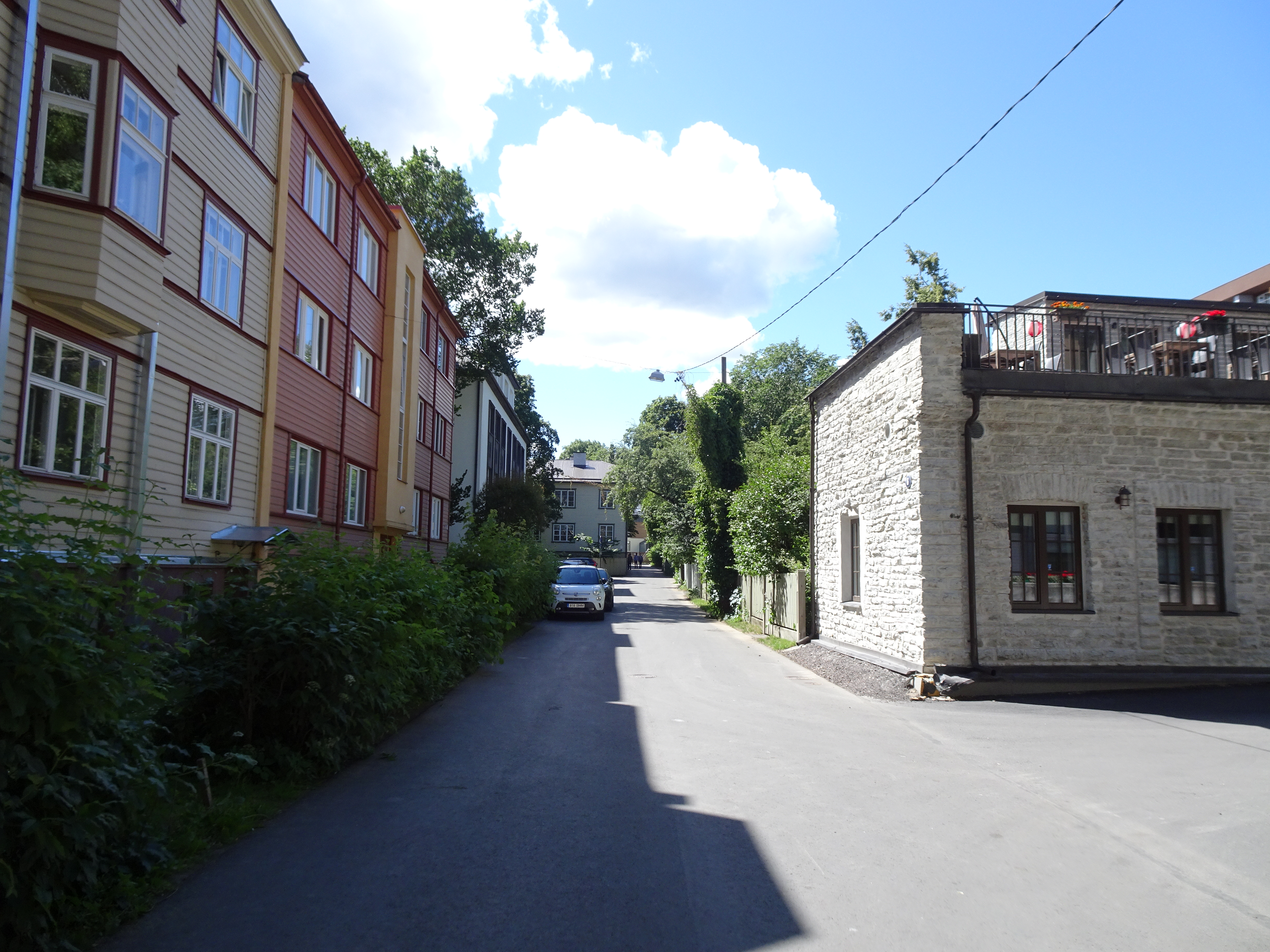 Lätte Street in Tallinn, Estonia